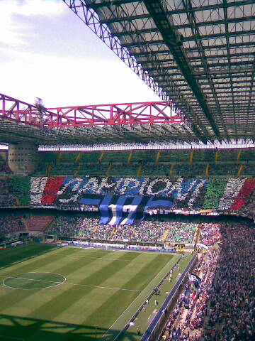 inter won the Serie A